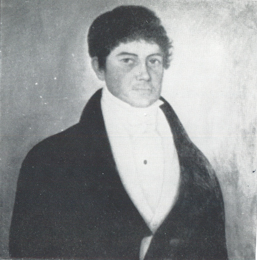 Portrait of 19th-century American sea captain and businessman Abel Coffin, scan of a printed copy of oil painting